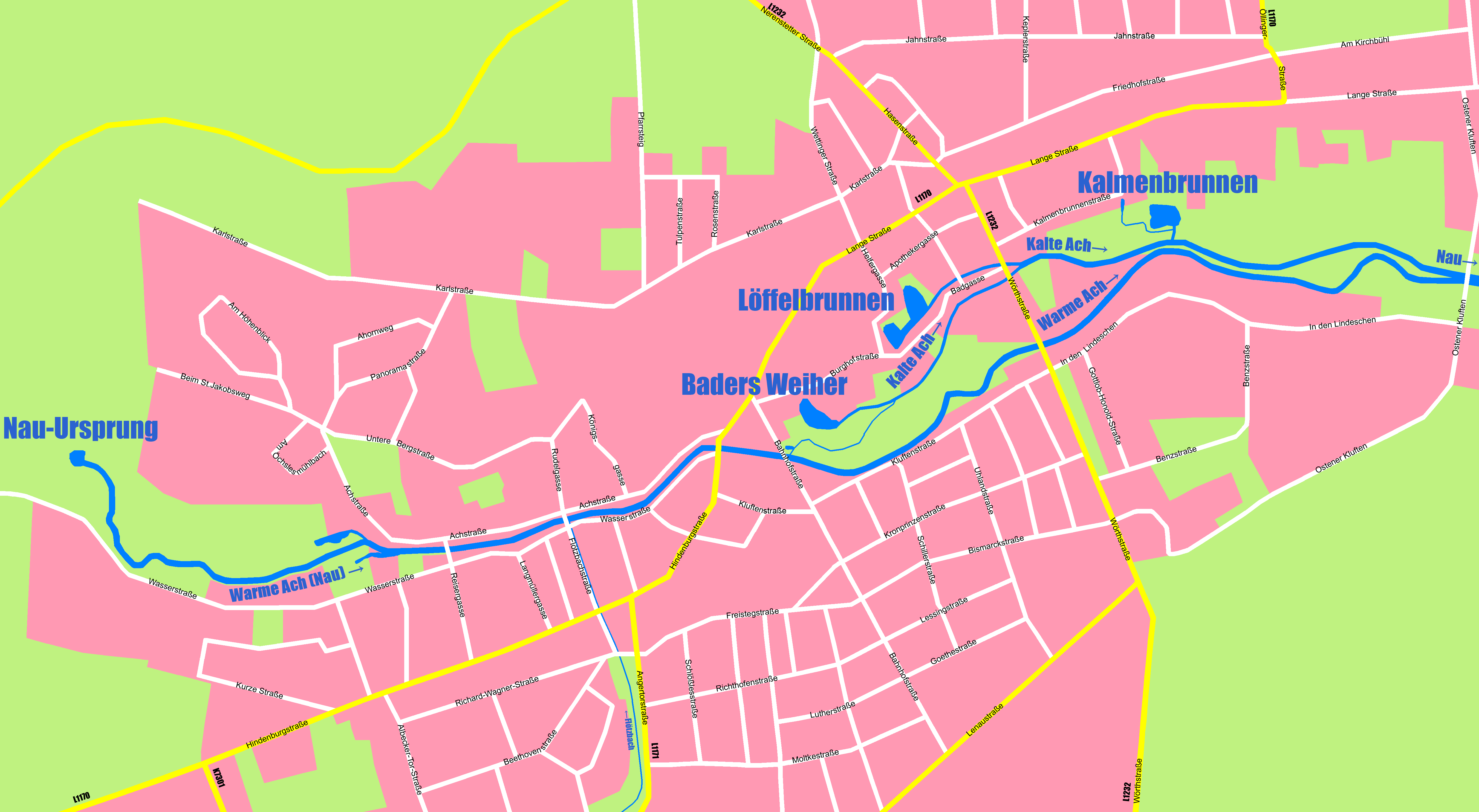 The Nau springs in Langenau Settlement area Meadow, Parks, Garden Body of water Main street